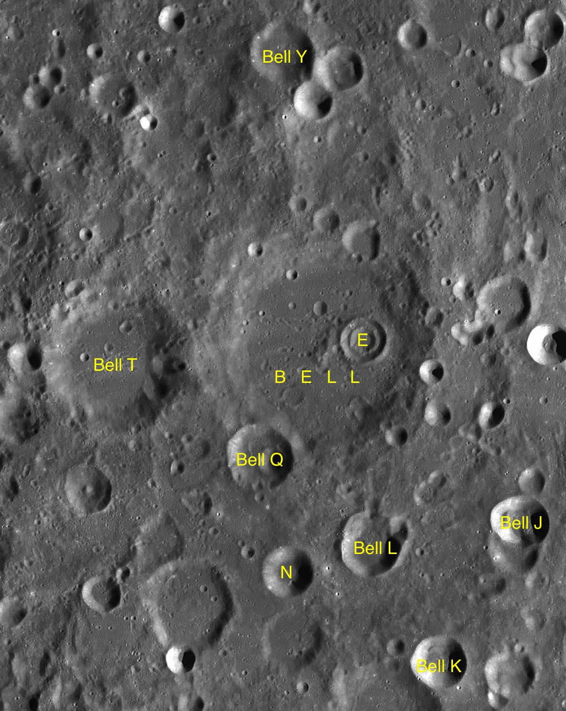 Part of the chart LAC-54 used for the presentation.